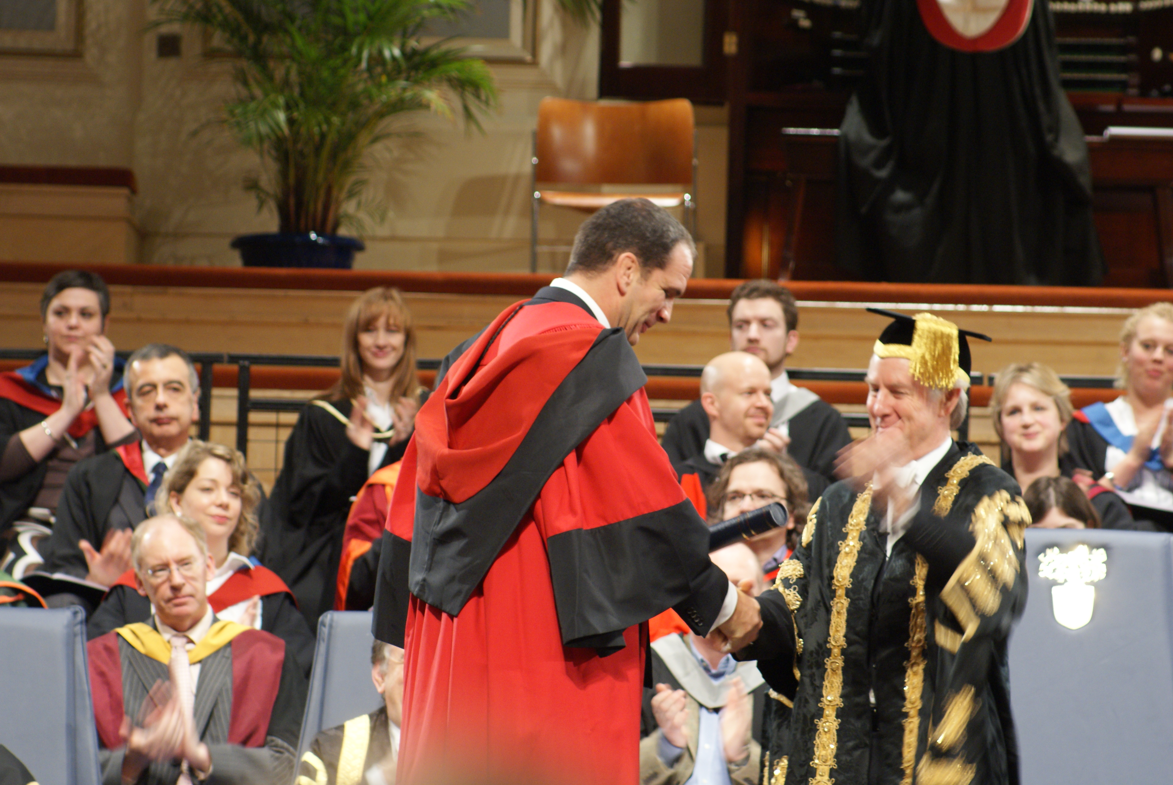 Martin Johnson receives his Doctorate of Laws.